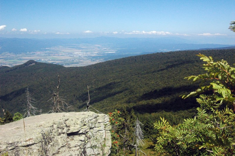 View from Mount Vtáčnik